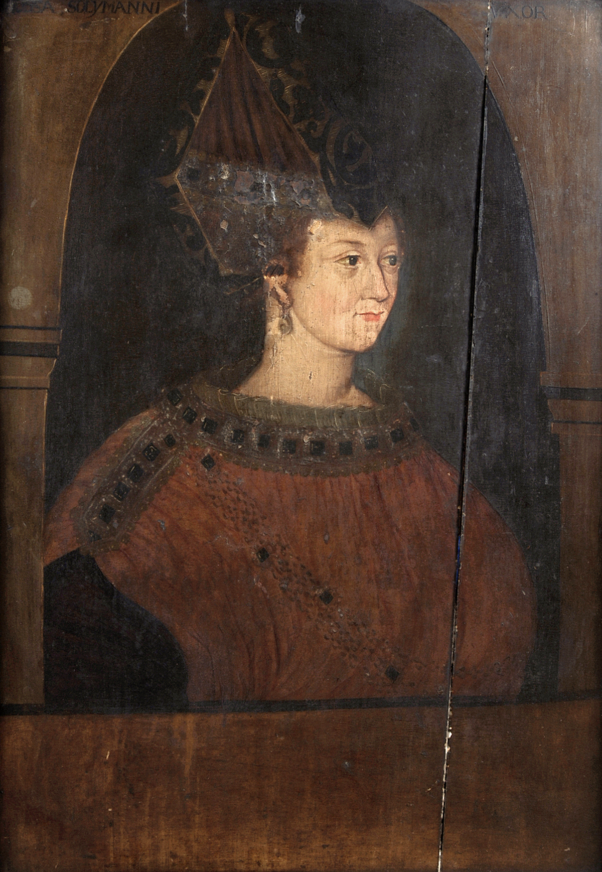 Rossa, Wife of Suleiman the Magnificent